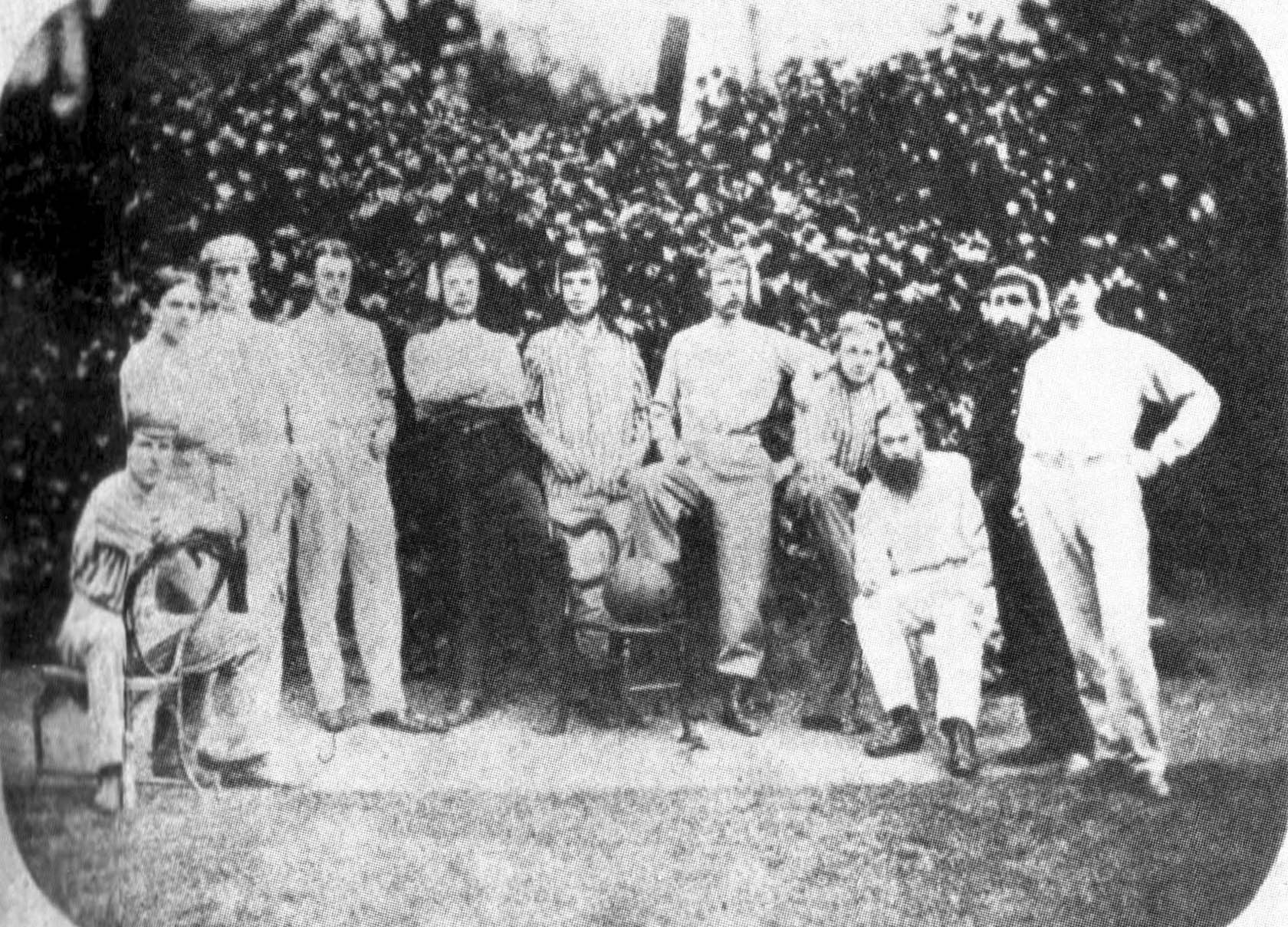 Team of Forest FC, then Wanderers FC